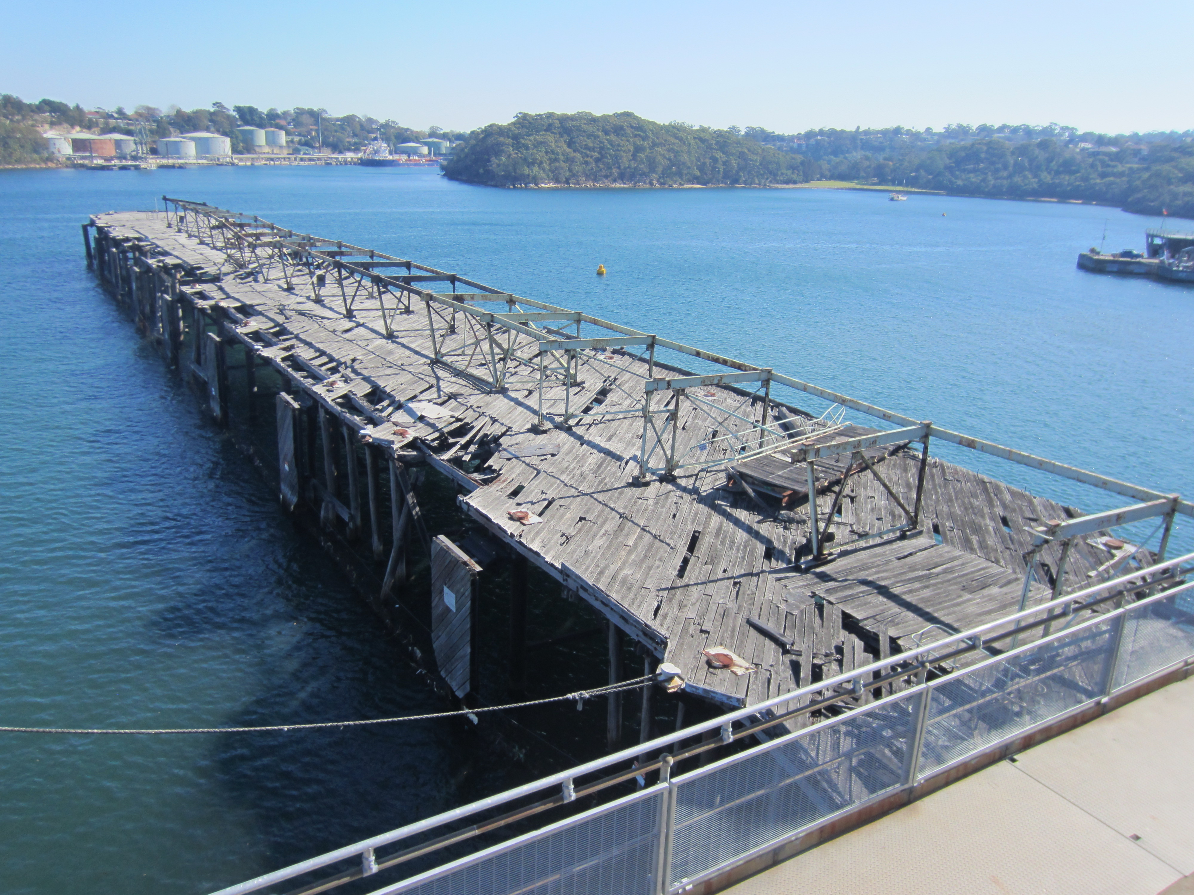 Waverton Coal Loader Loading wharf from stockpile area in August 2018, Waverton, Sydney